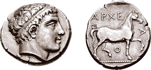 Archelaus Didrachm. 413-399 BC. Head of Apollo right, in taenia / ARC-E-LA-O, horse walking right, with trailing reins; all within linear square